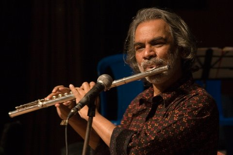 Pradip Chatterjee playing the flute at the First Rock concert, 17th February 2007, Bangalore.